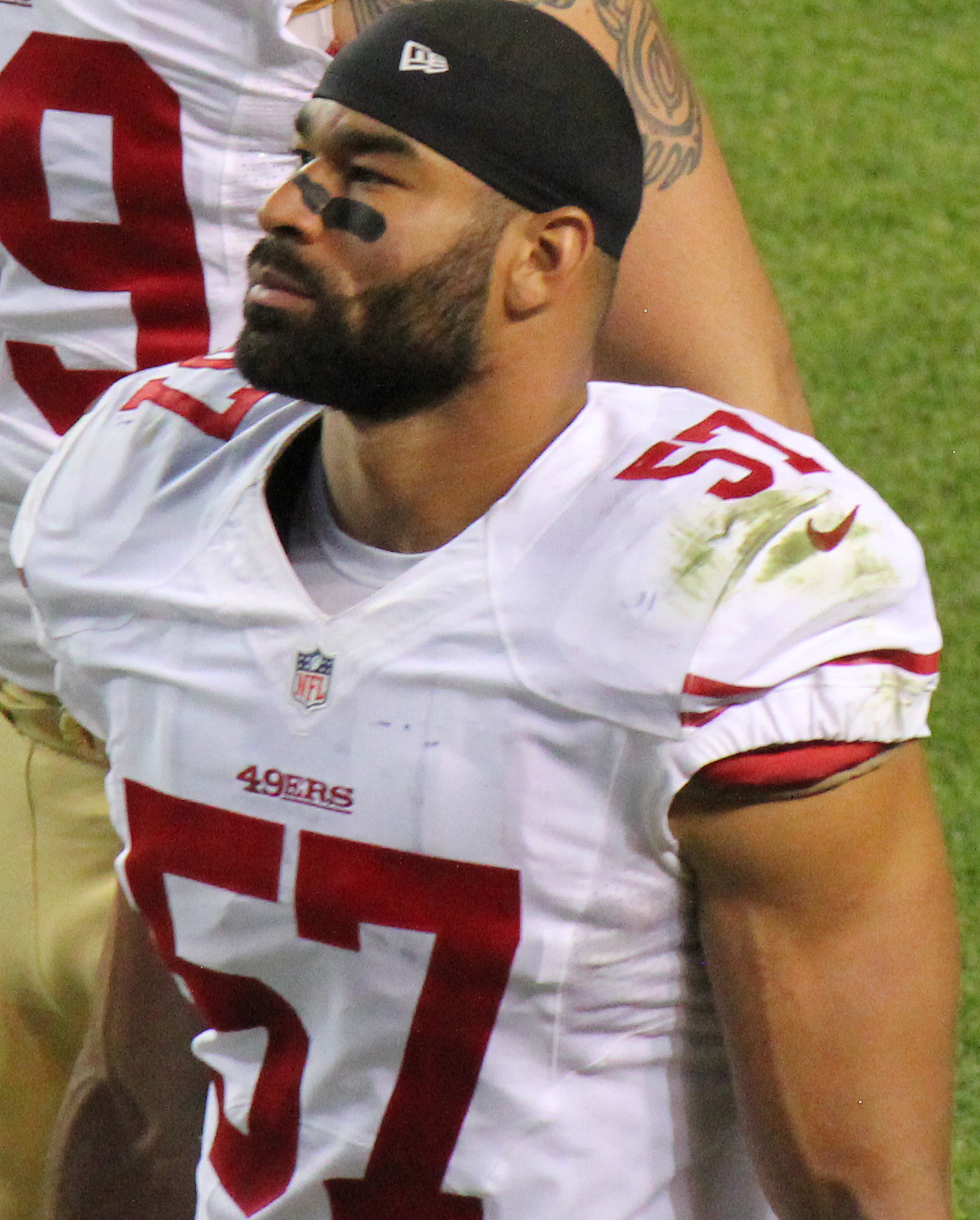 Michael Wilhoite, a player on the National Football League.